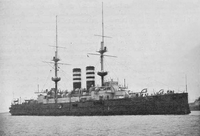 Japanese battleship Mikasa (cropped photo File:Battleship mikasa.jpg with retouched background)